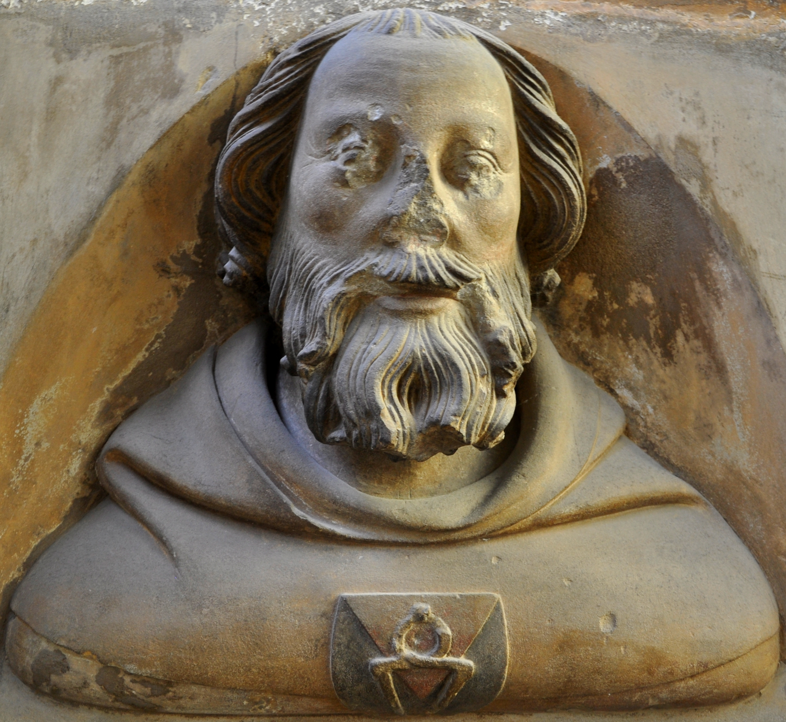 Matthias of Arras, the first architect of St. Vitus Cathedral. Sandstone, 1370s, by Peter Parler's workshop.